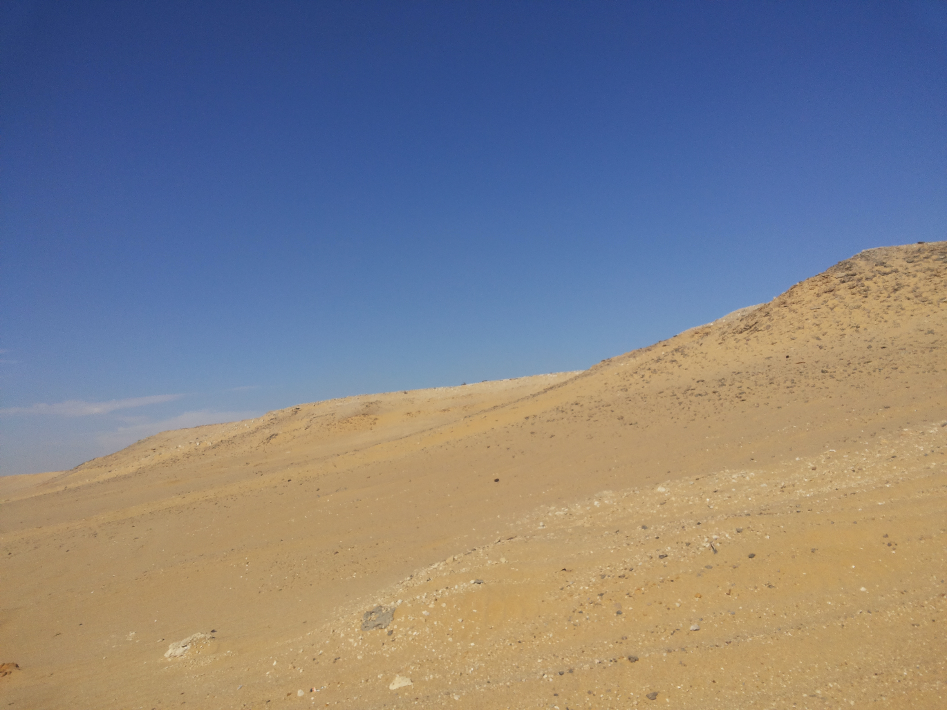 صحراء المغرة، العلمين، مصر